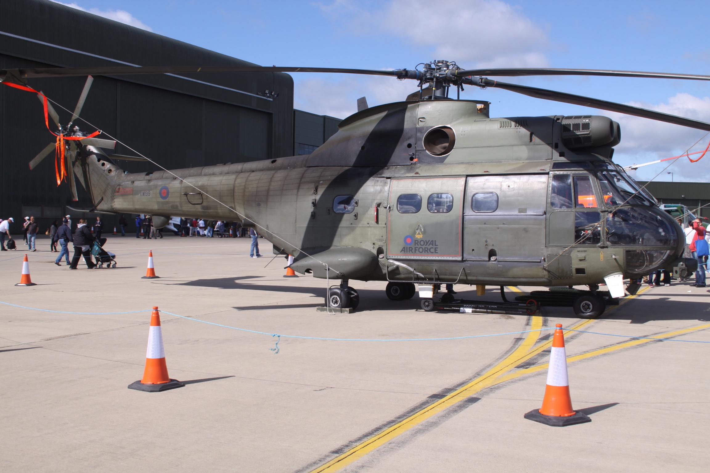 At RAF Waddington